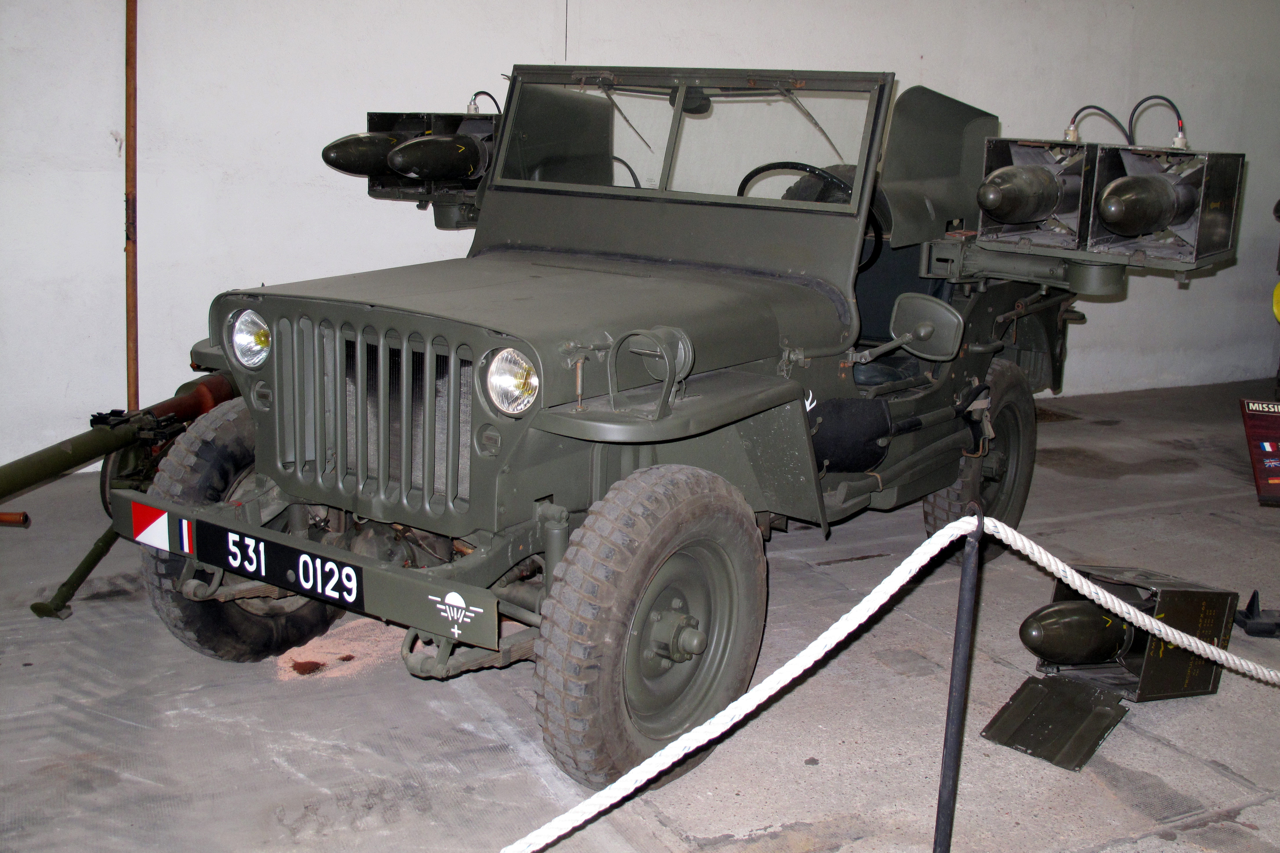 Hotchkiss M201 jeep (licensed Willys MB) with ENTAC missile